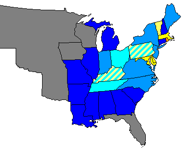 Summary of party control of U.S. house seats in the 28th United States Congress following election. Stripes indicate a tie between two or more parties. Legend: 80.1-100% Democratic seat majority 60.1-80% Democratic seat majority 60% or less Democratic seat plurality 60% or less Whig seat plurality 60.1-80% Whig seat majority 80.1-100% Whig seat majority 80.1-100% Law and Order seat majority